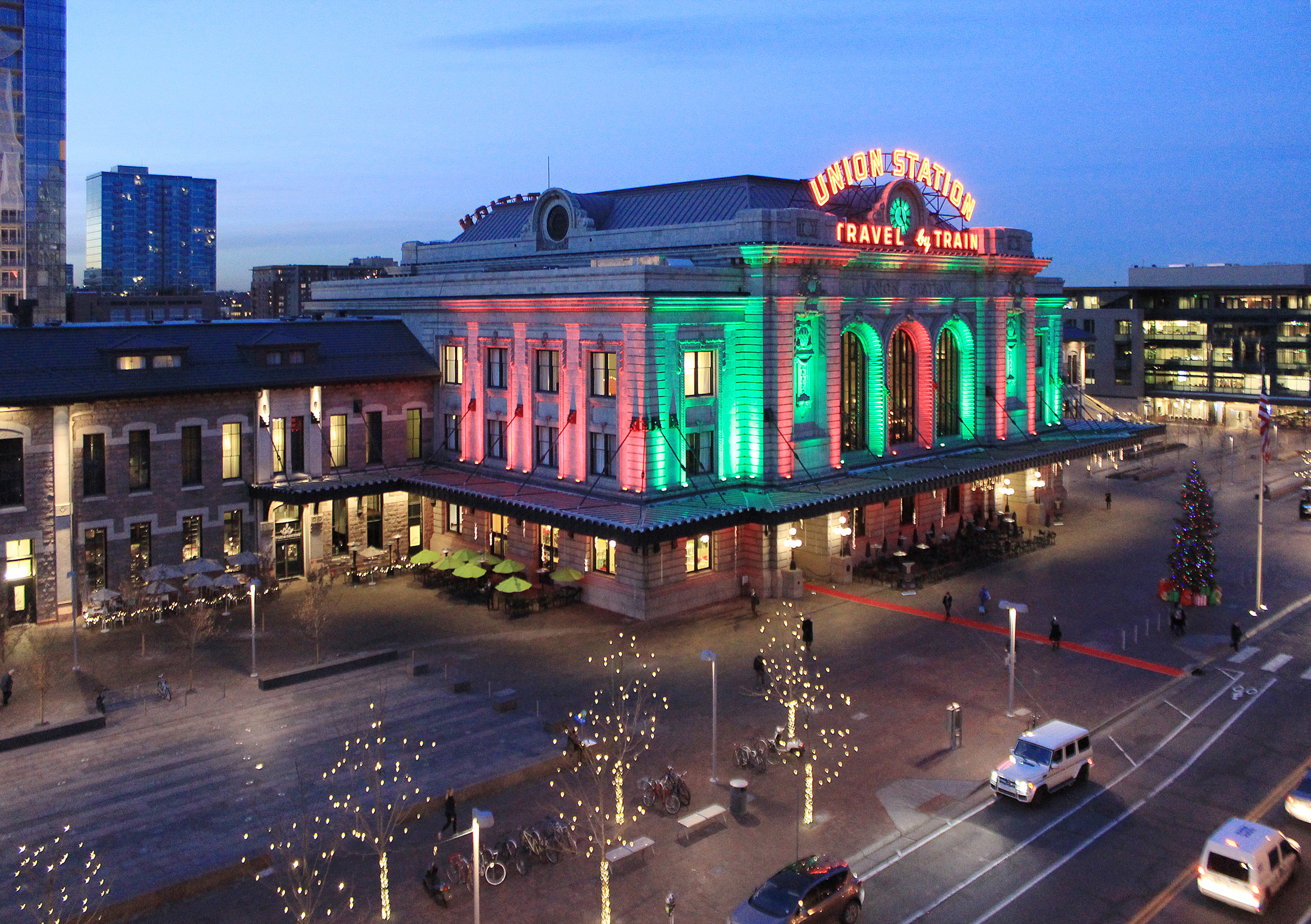 For decades, Union Station has been lit for the holidays and this tradition continues after its extensive renovations.